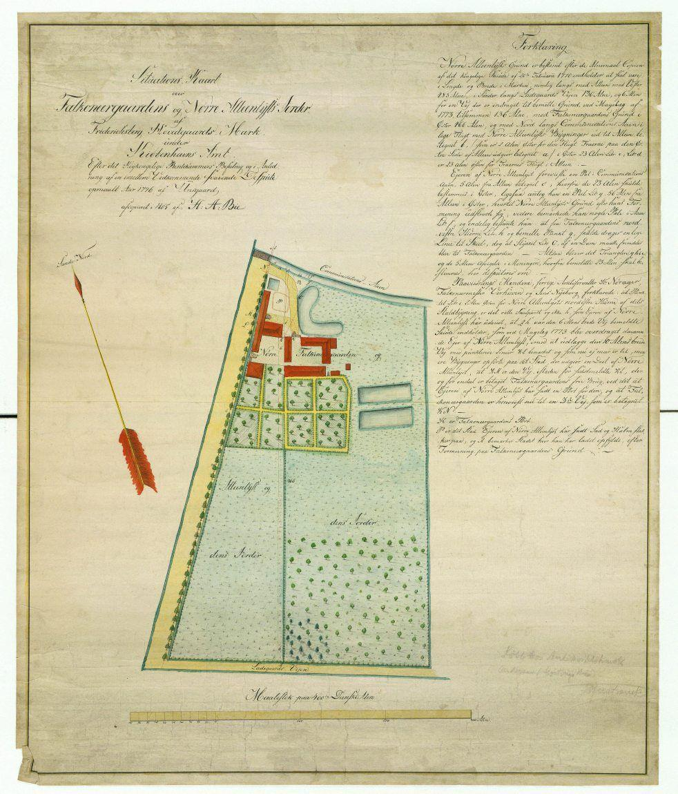 Map" of Falkonergården and Nørre Alléenlyst and their land" in Frederiksberg, Denmark.